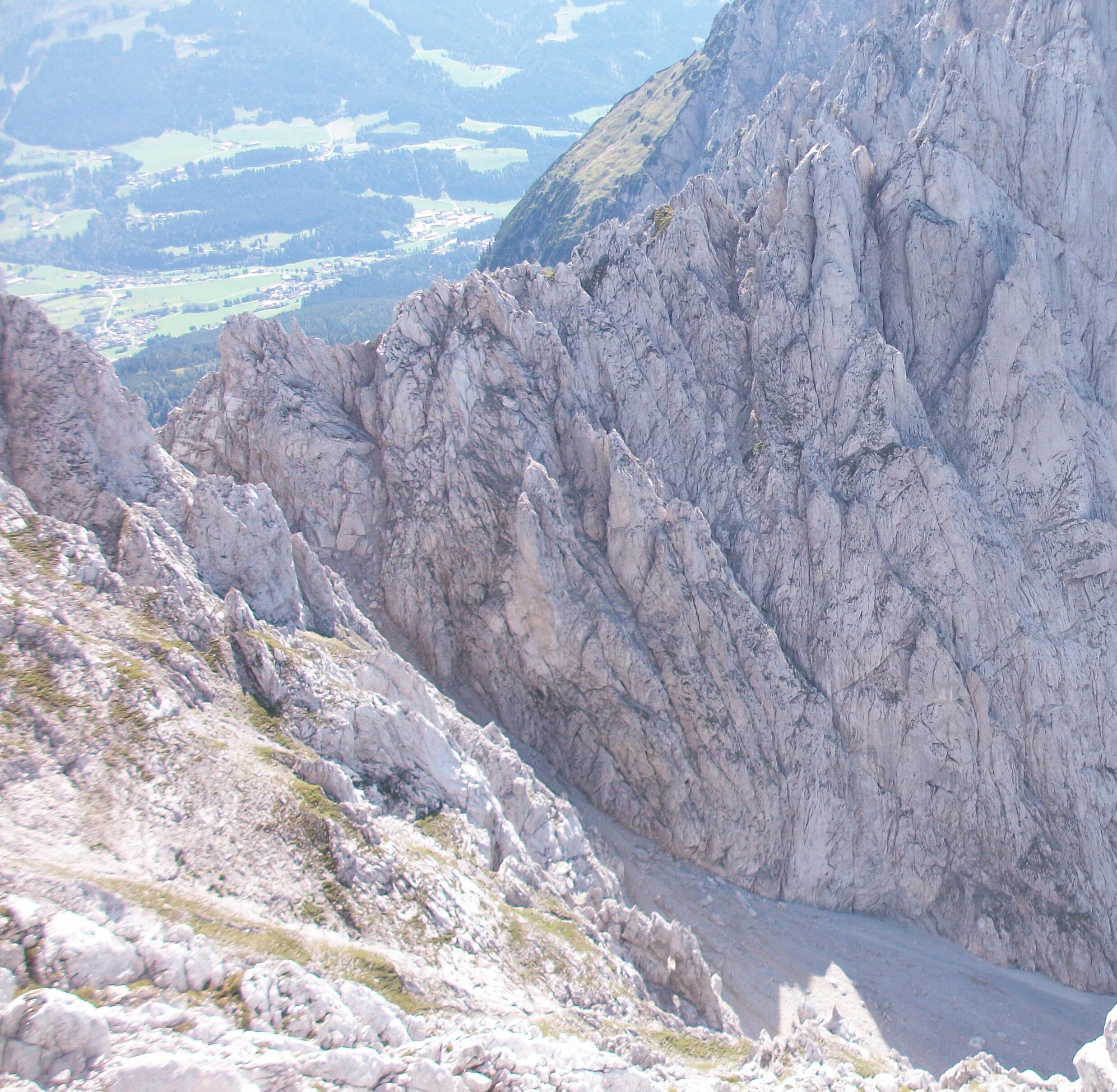 Kopftörl from northeast